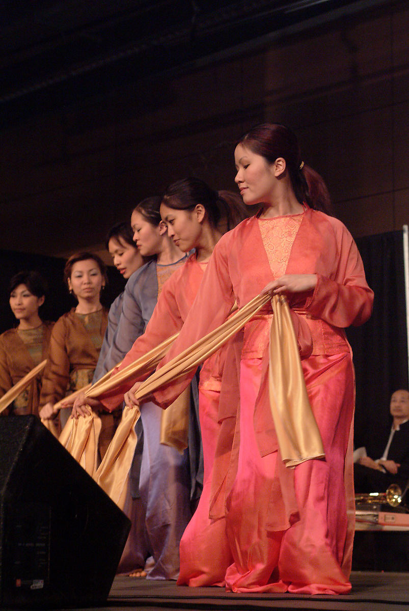 Item 137406, Fleets and Facilities Department Imagebank Collection (Record Series 0207-01), Seattle Municipal Archives.